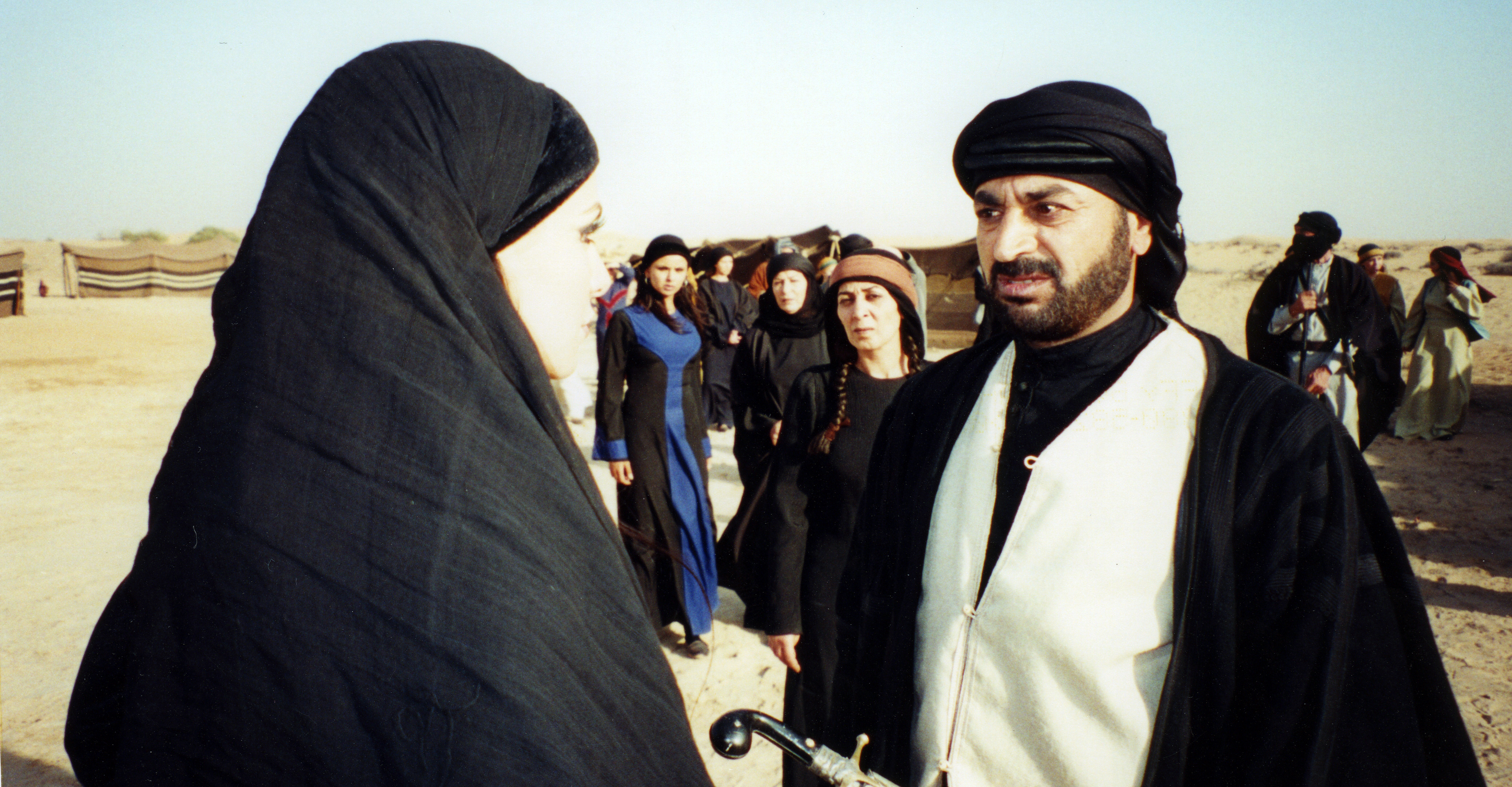 Hisham Hamadeh - Jordanian Actor in the Drama series - The Last Cavalier in the role of Dahshan and Joelle Behlok in the role of Shaima